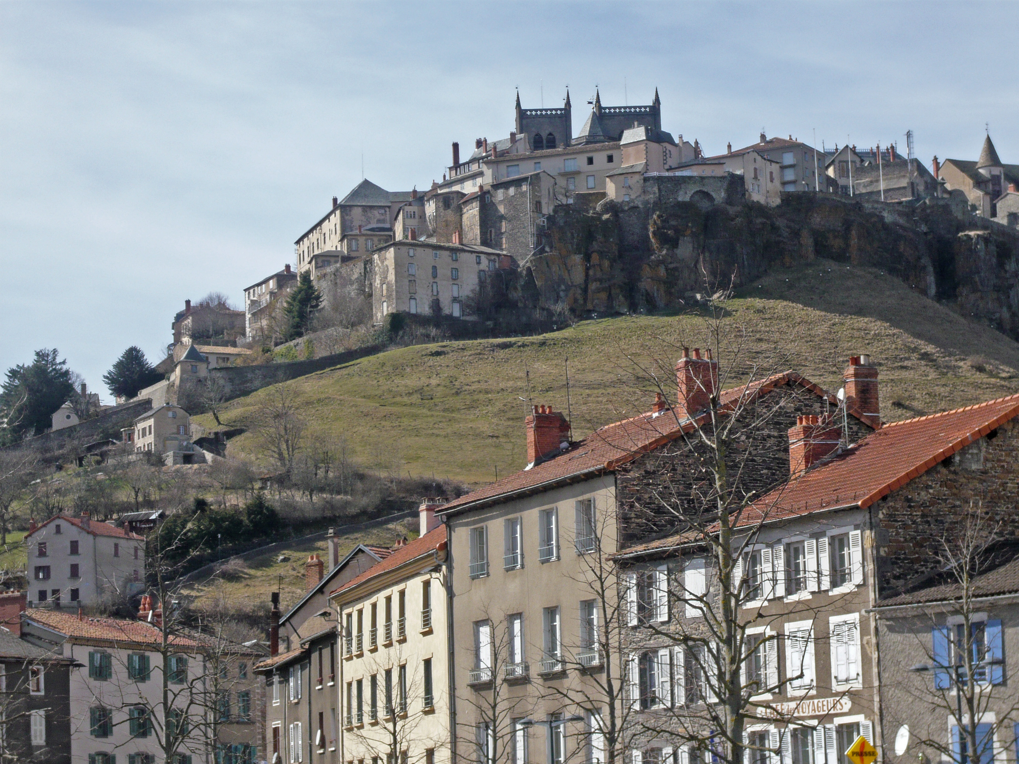 The upper town and its Walls.